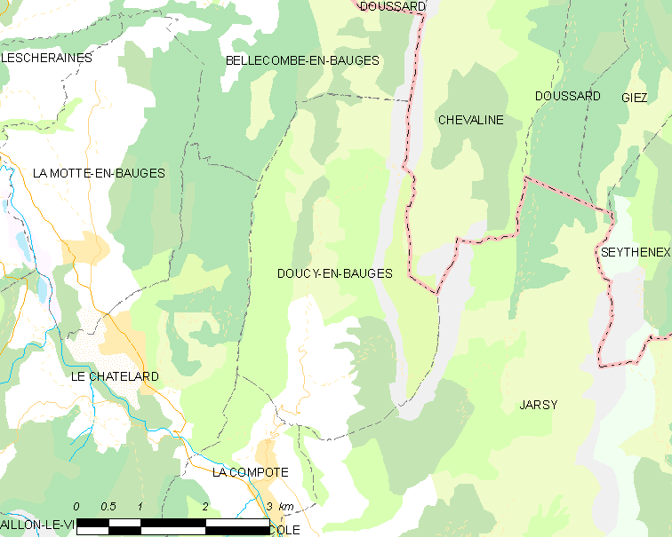 Map of French municipality